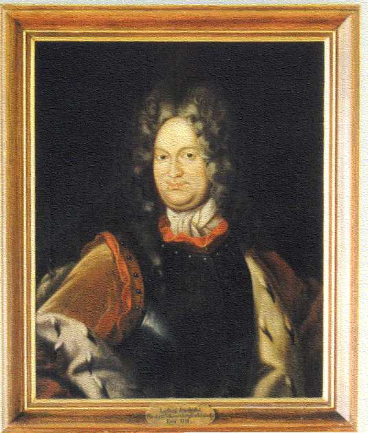 Louis Frederick I, Prince of Schwarzburg-Rudolstadt